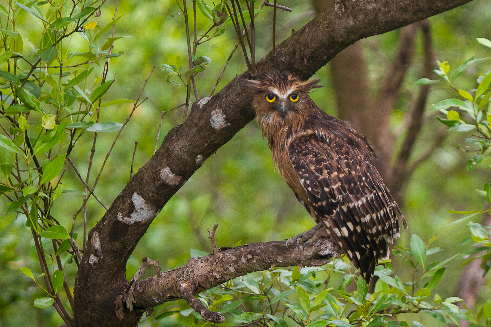 Buffy Fish Owl in Sundarban Tiger Reserve, West Bengal, India.